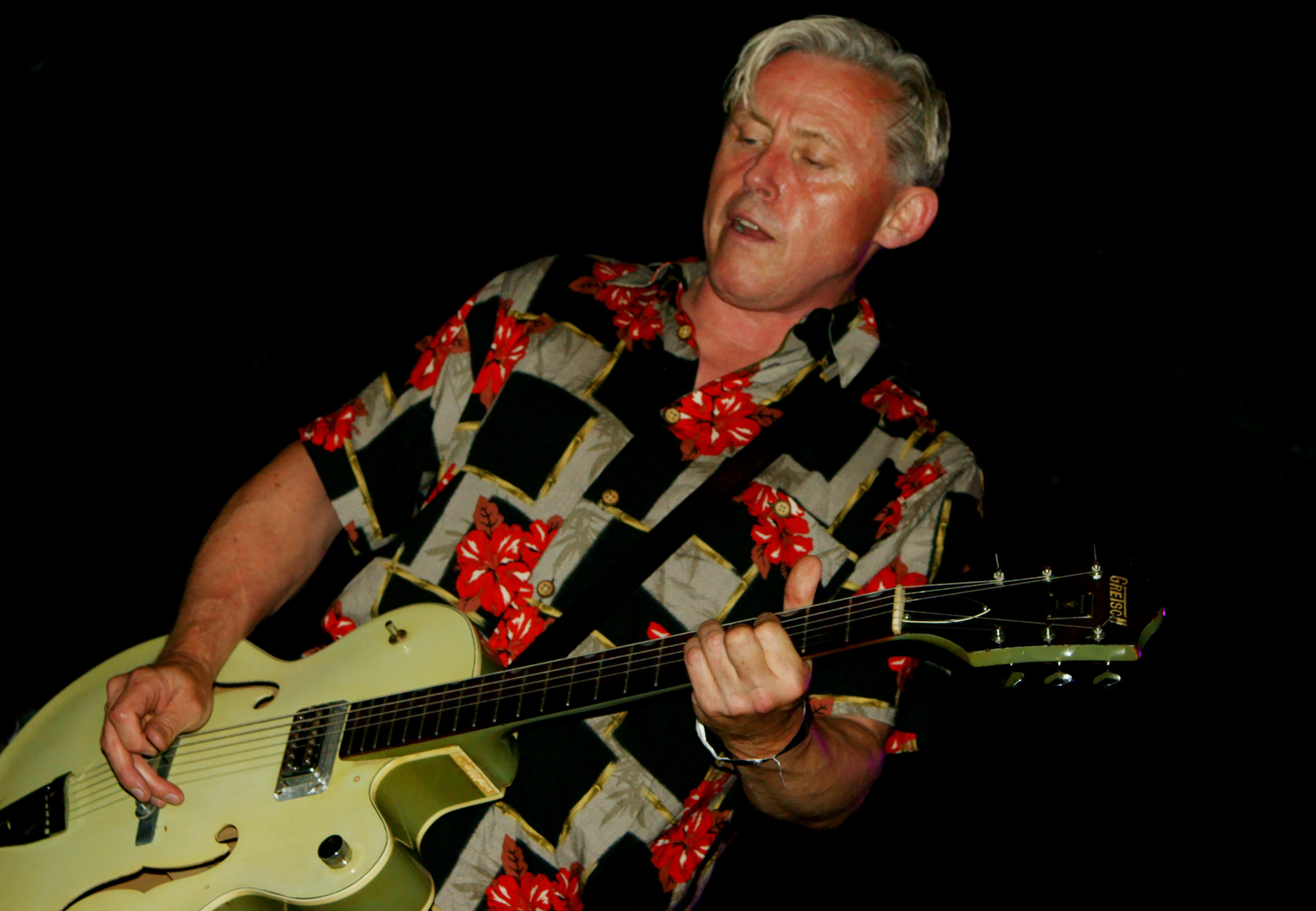 Kirk Brandon of Spear of Destiny performing at Electric Brixston, London, on Saturday the 14th of July 2012